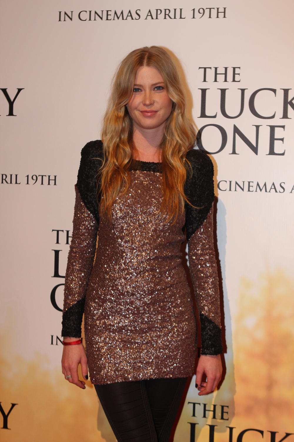 The Lucky One World Premiere At Bondi Juction, Sydney, Australia